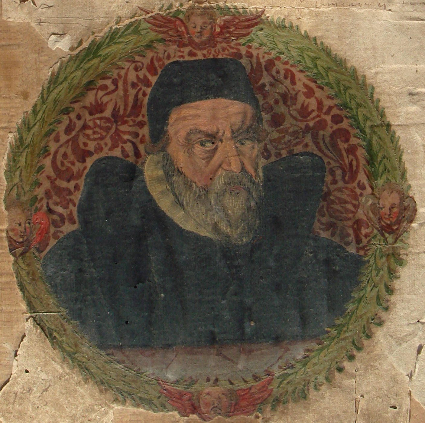 The first and only portrait of Mag. Friedrich Dedekind